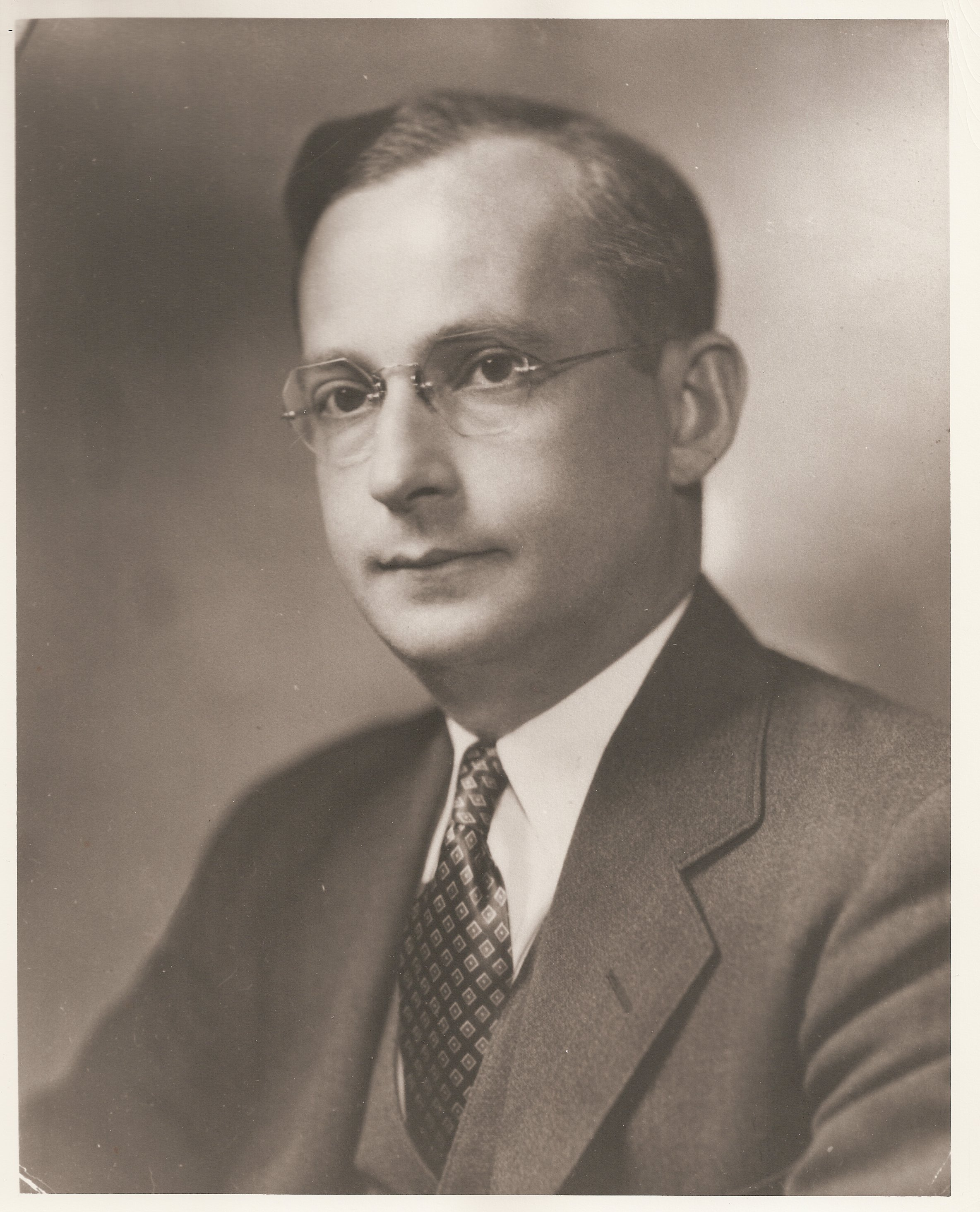 Personal Portrait of Saul Hertz, MD from family collection